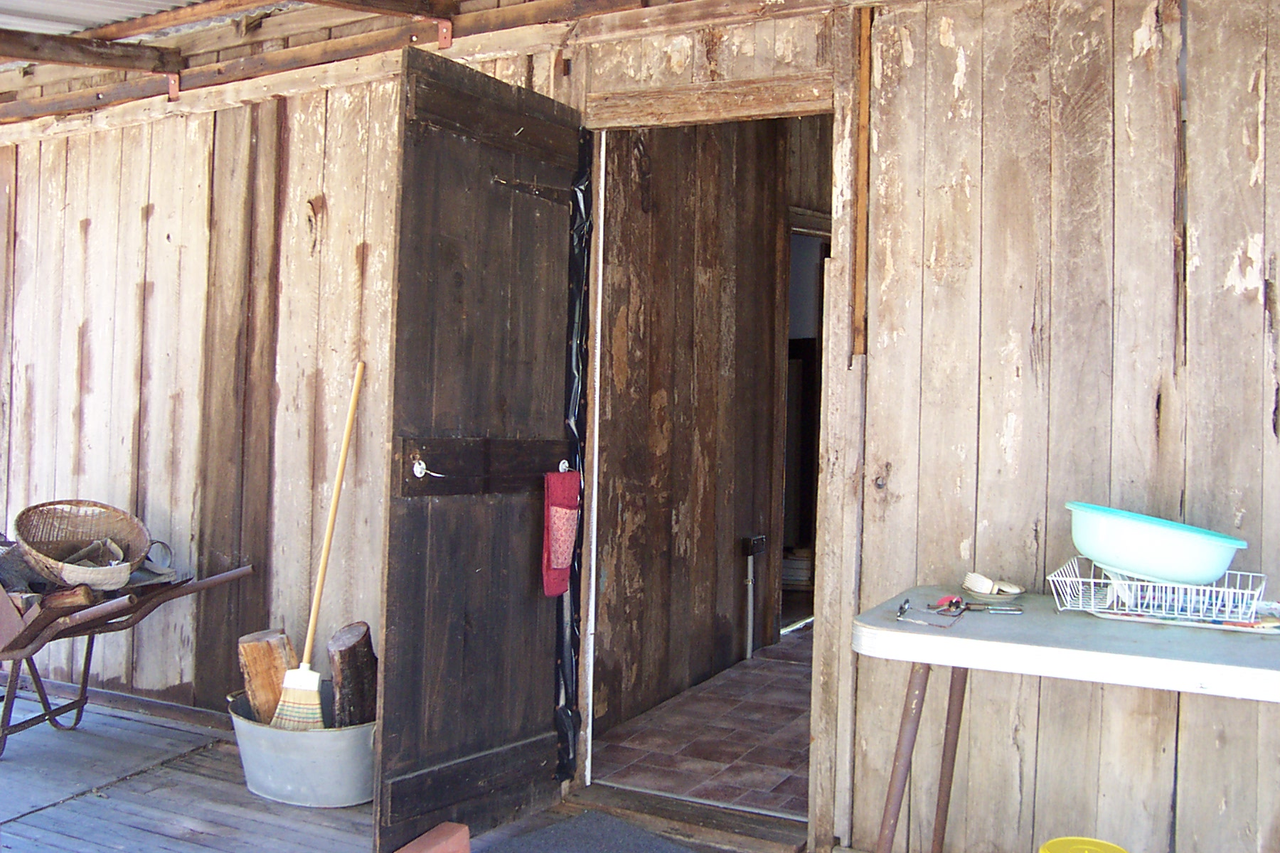 Rear entrance of slab hut originally built to accommodate travelling stockmen. Paynes Crossing Road, Wollombi, NSW Australia